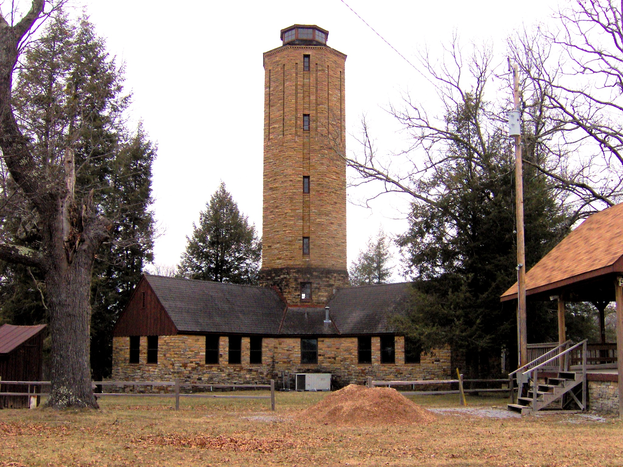 The Cumberland Homesteads Museum and Tower near Crossville, Tennessee, USA.